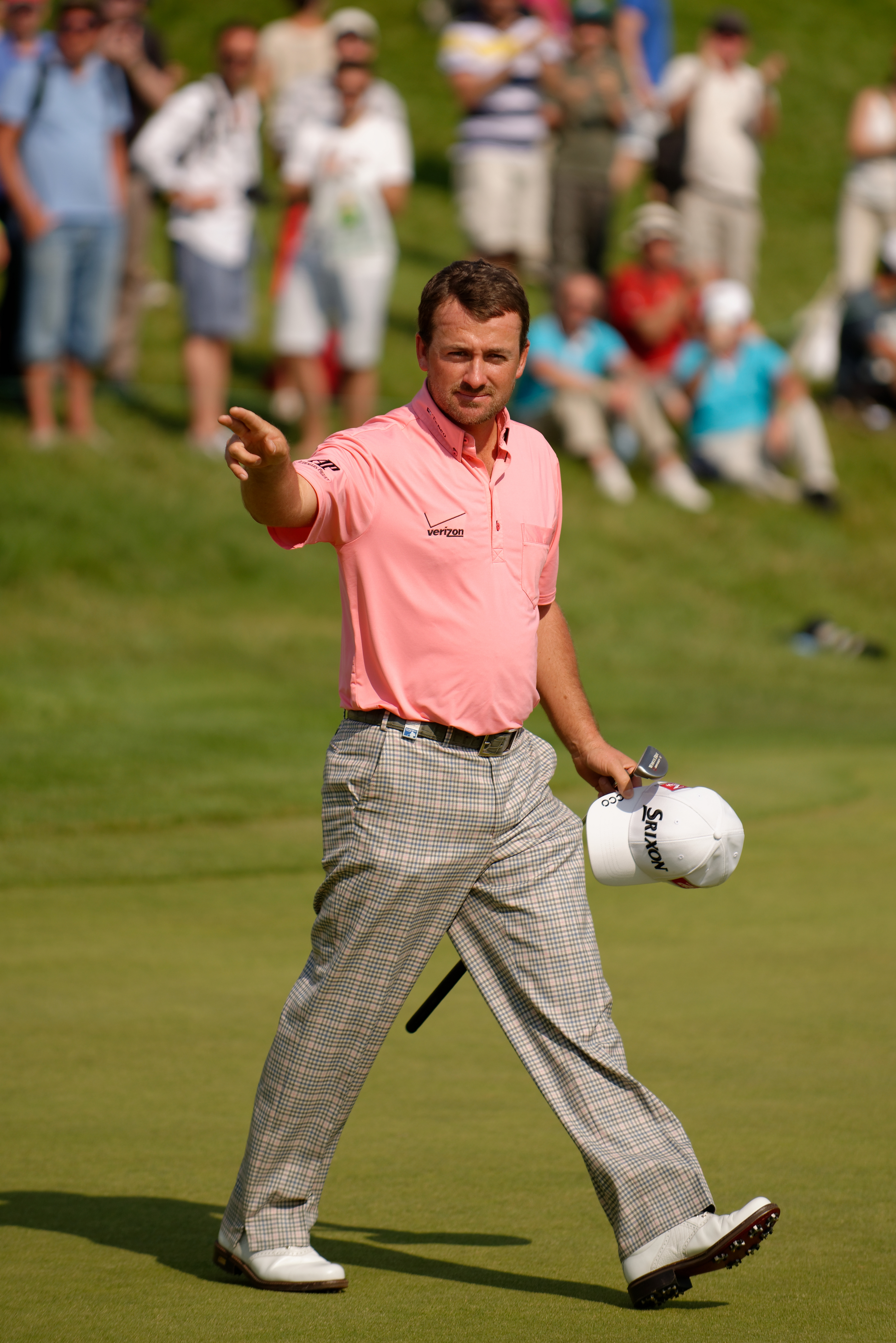 Graeme McDowell blows a kiss to the public after making par on the 16th green in the final round of the French Golf Open at the Golf National in Saint Quentin en Yvelines, Sunday July 7th 2013.